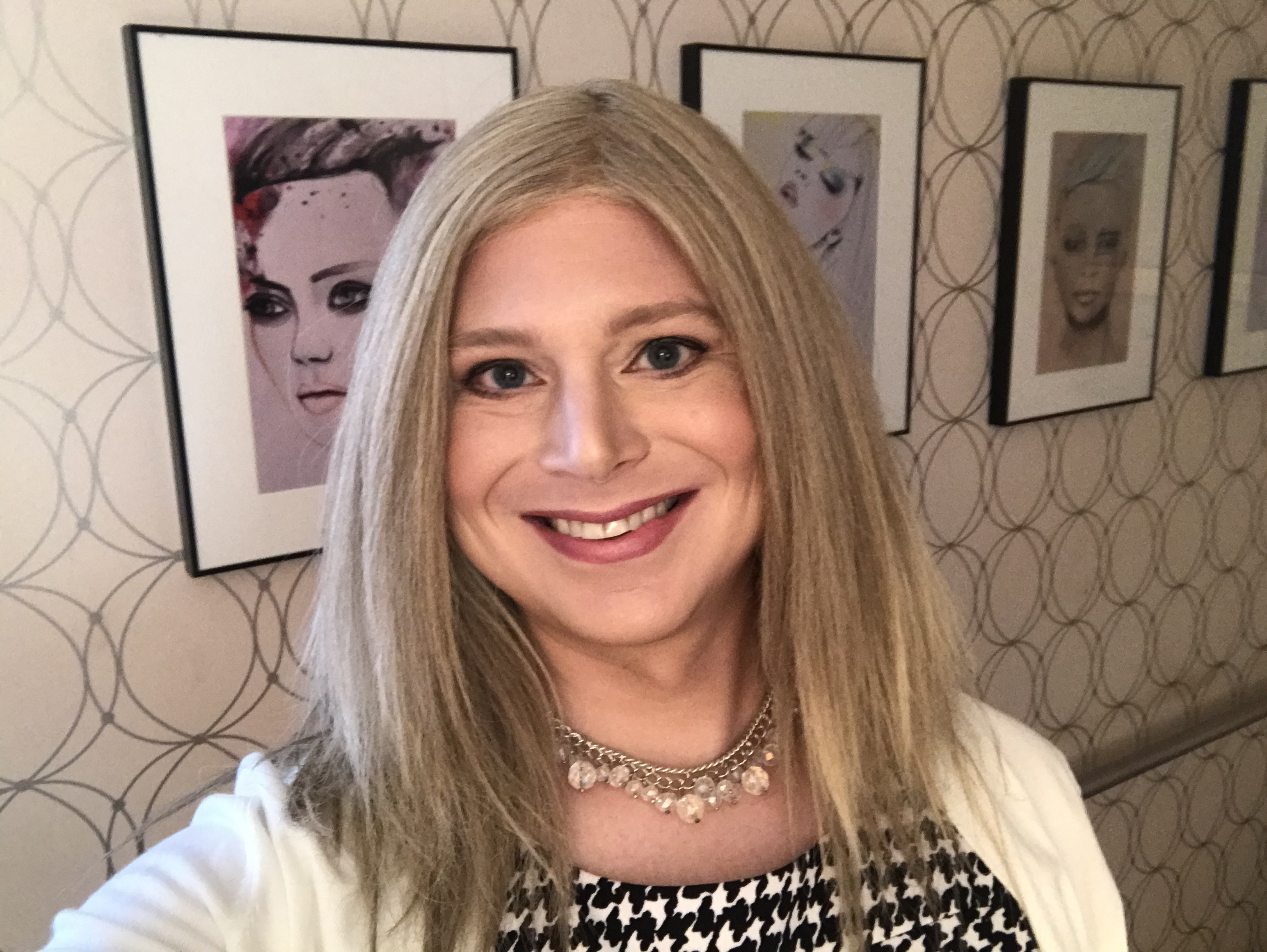 Lily Hanson's photo in 2019